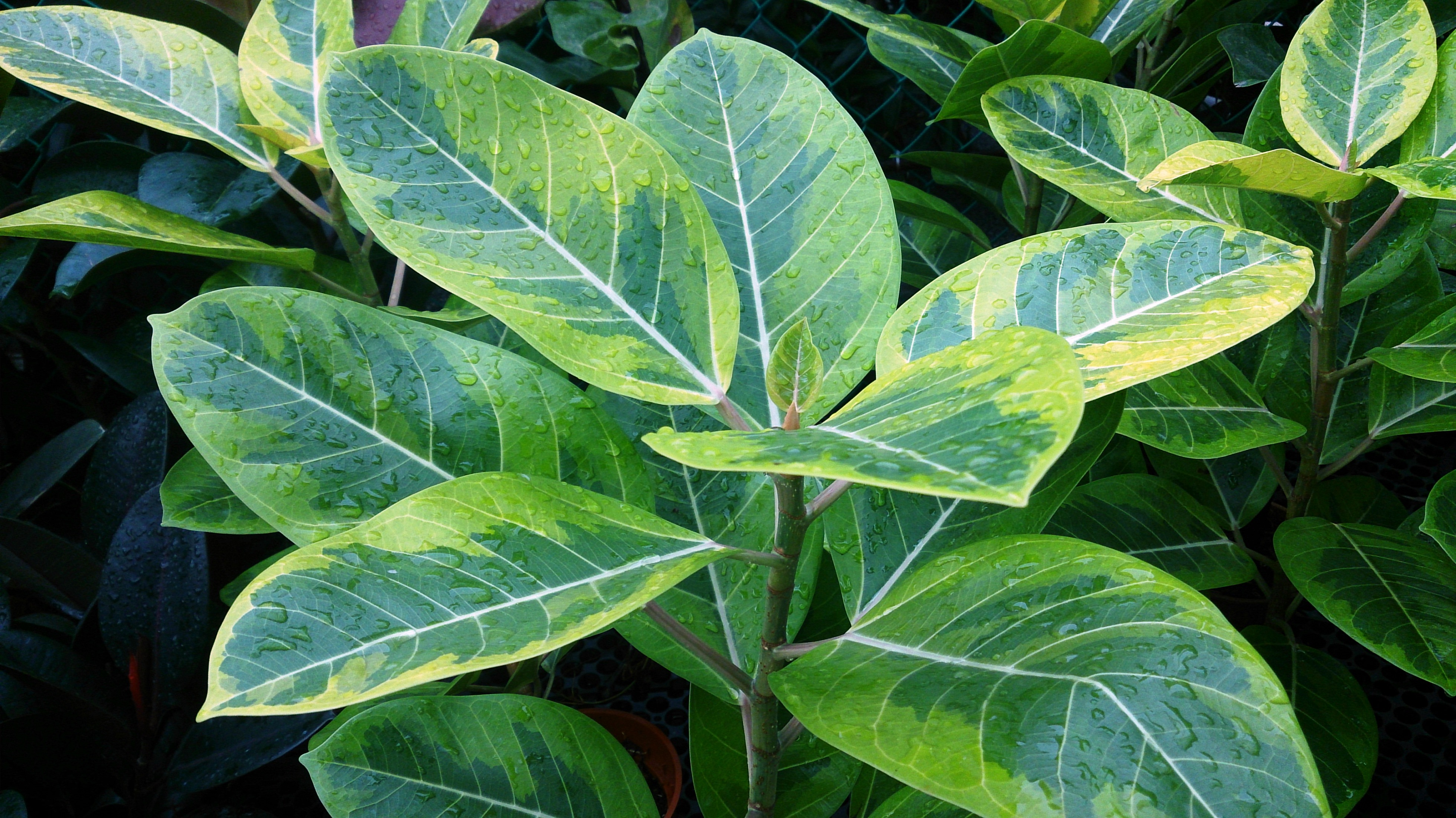 Ficus elastica. Common name: Rubber Plant. Indian Rubber Plant. 印度胶树 (Chinese)